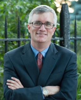 Photograph of Brian P. Kavanagh.